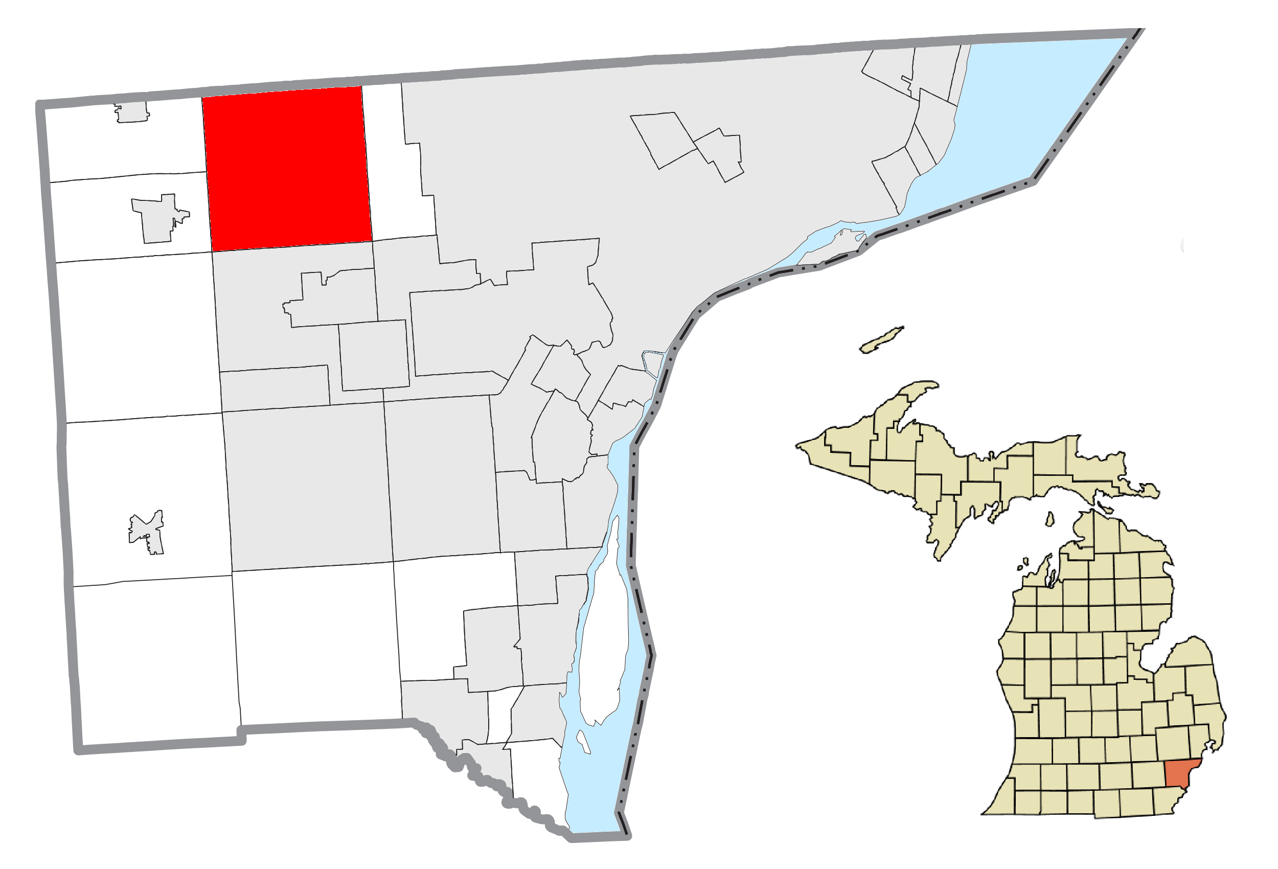 Livonia, MI